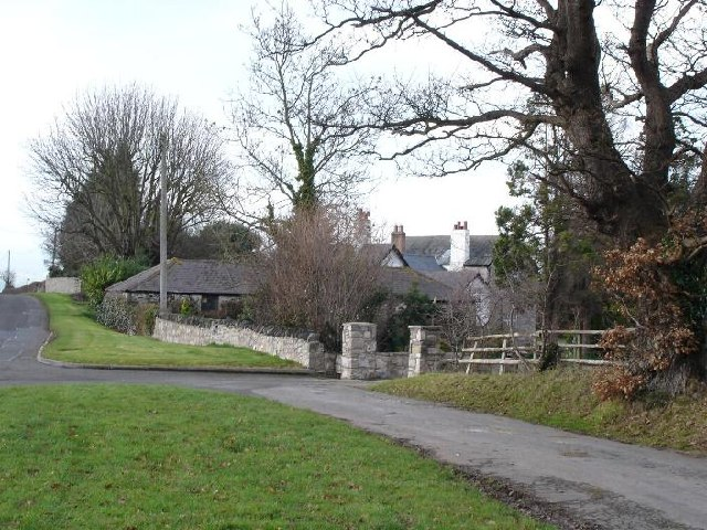 Cottages near Llangwyfan. Stone cottages and farm buildings near to the village on Llangwyfan